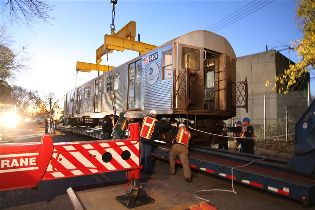 On November 6, 2012, employees from MTA New York City Transit loaded subway cars onto flatbed trucks for transportation to the Rockaway Peninsula. The cars will be used to create shuttle trains that will operate on the A Line in the Rockaways until full service can be restored. Photo: MTA New York City Transit / Leonard Wiggins.